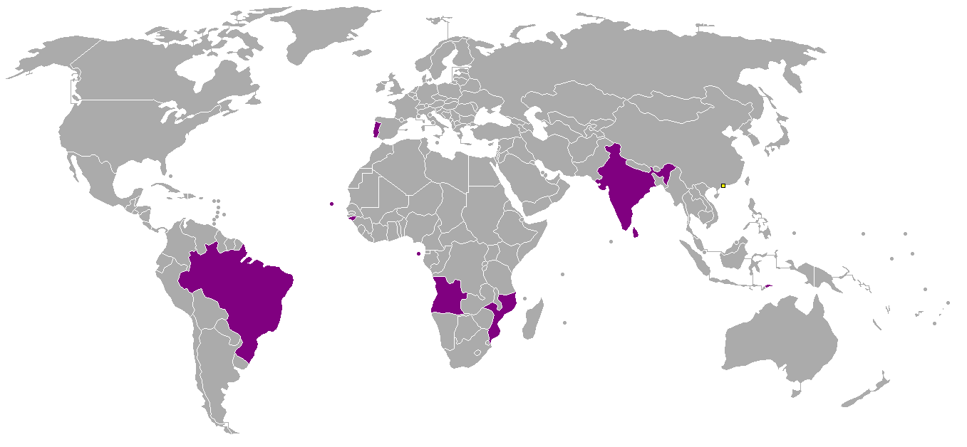 World map with participating countries at the 2006 Lusofonia Games